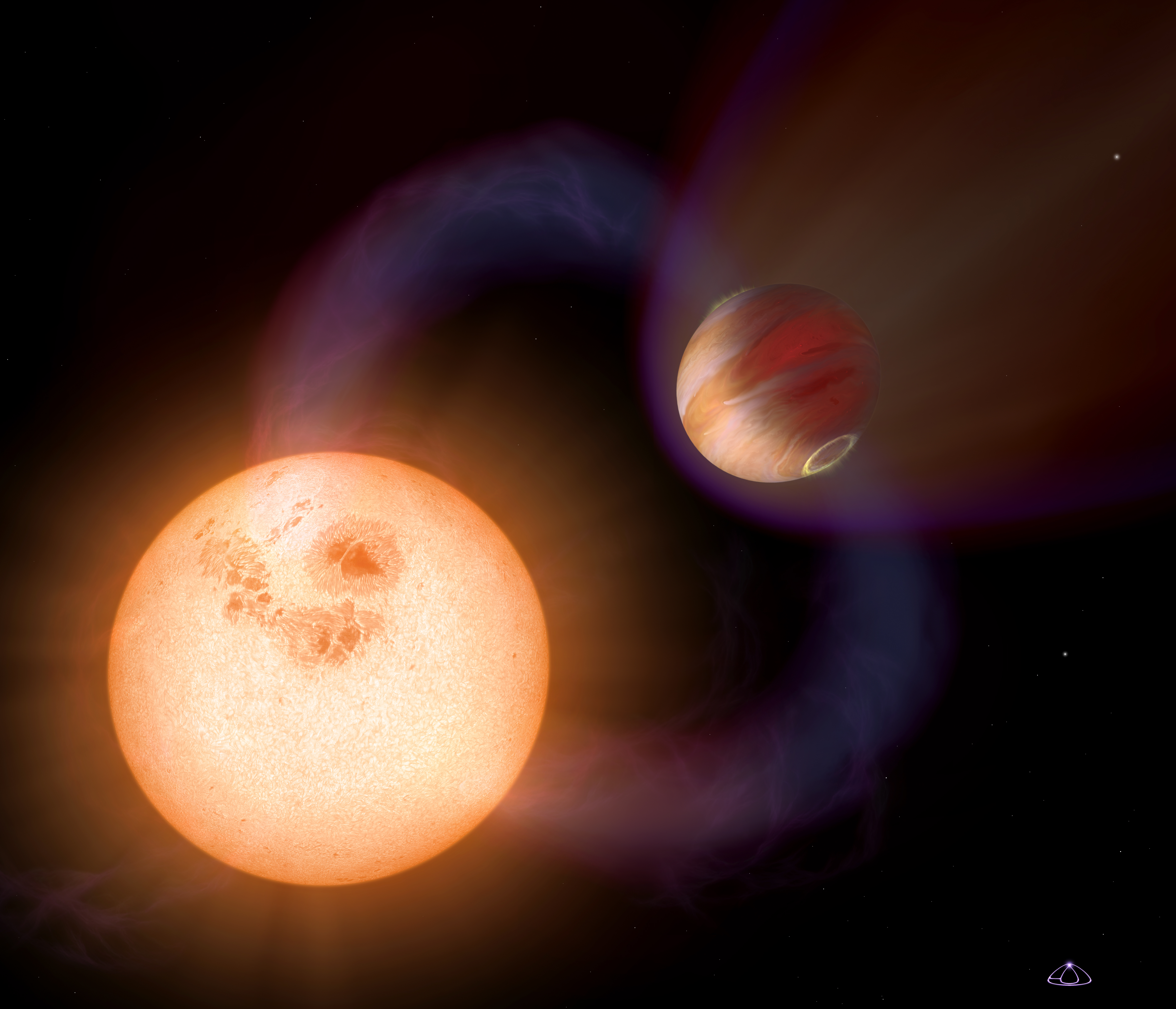 This is an artist's impression of a unique type of extrasolar planet discovered with the Hubble Space Telescope. The planet is so close to its star that it completes an orbit in 10.5 hours. The planet is only 750,000 miles (about 1.207 Million kilometres) from the star, or 1/130th the distance between Earth and the Sun. The Jupiter-sized planet orbits an unnamed red dwarf star that lies in the direction of the Galactic Centre; the exact stellar distance is unknown. Hubble detected the planet in a survey that identified 16 Jupiter-sized planets in short-period, edge-on orbits (as viewed from Earth) that pass in front of their parent stars. Hubble could not see the planets, but measured the dimming of starlight as the planets passed in front of their stars. This illustration presents a purely speculative view of what such a "hot Jupiter" might look like. It could have a powerful magnetic field that traps charged particles from the star. These particles create glowing auroral rings around the planet's magnetic poles. A powerful magnetic flux tube links the planet and star. This enhances stellar activity and triggers powerful flares. A powerful stellar wind creates a bow shock around the planet. The planet's atmosphere seethes at 1,650 degrees Celsius.